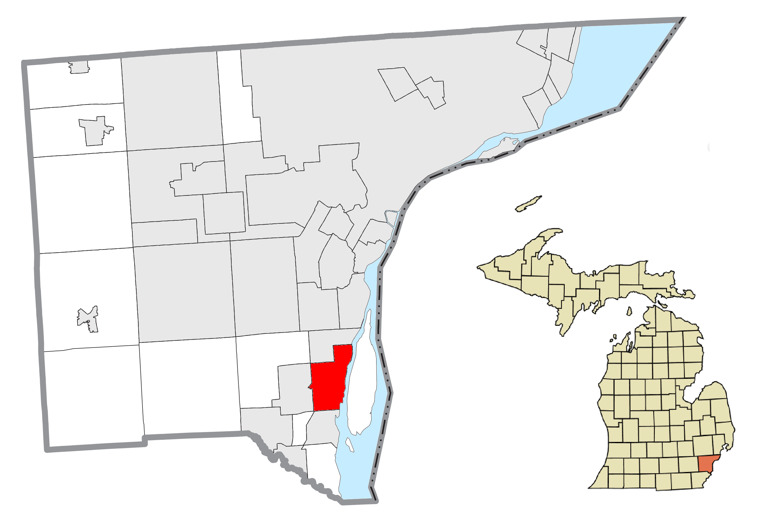 Trenton, MI